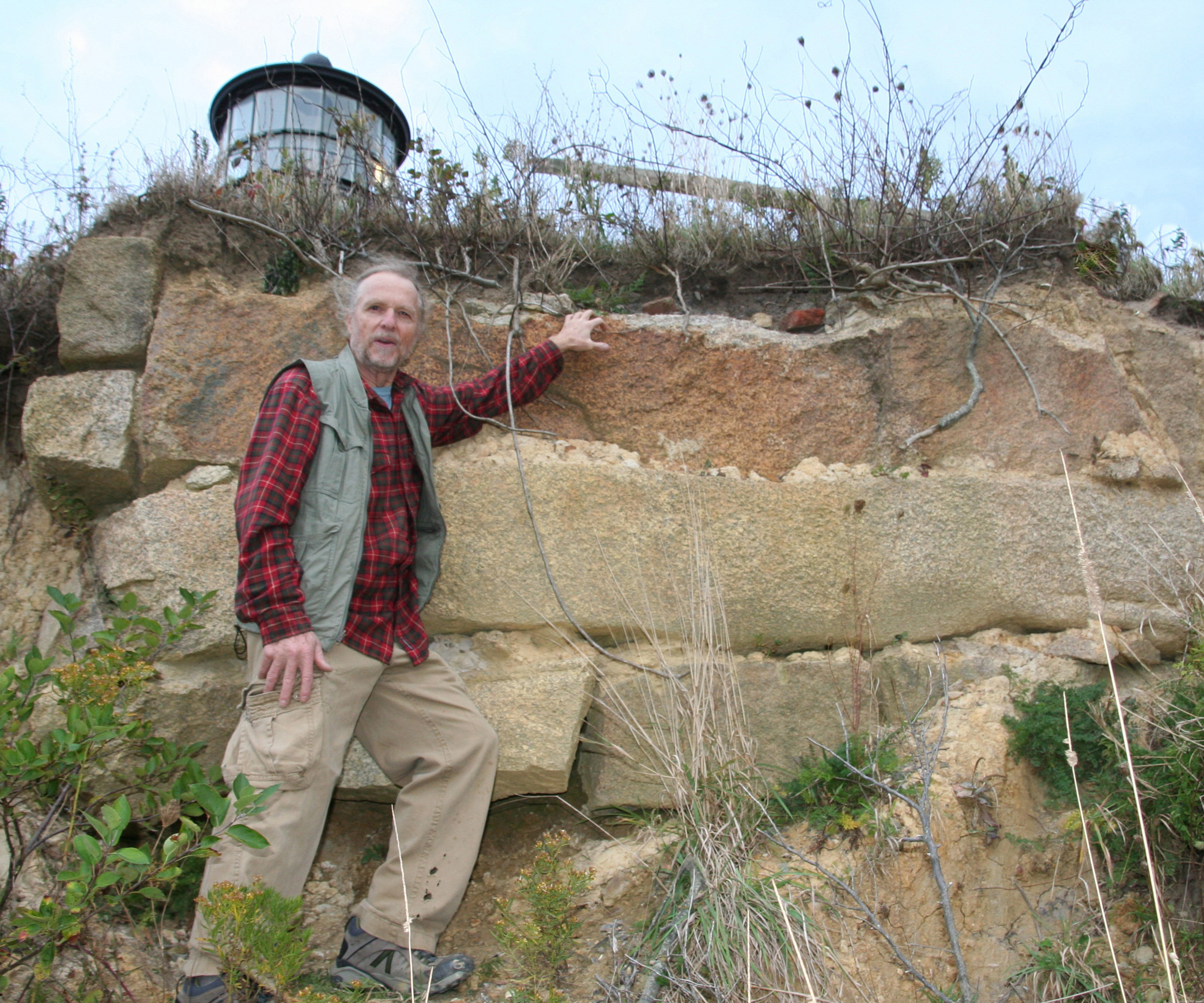 On October 21, 2013, William Waterway (Gay Head Light modern day keeper, 1984-1994) was exploring and photographing the endangered Gay Head Lighthouse and its eroding clay cliffs. Much to his surprise, he discovered what may be the 1844 foundation for the first wooden 1799 Gay Head Lighthouse's keeper's house that was relocated in 1844. In 1844, due to threats of the erosion, the original 1799 octagonal wooden lighthouse and its keeper's house with outbuildings were moved about 75 feet back from the edge of the clay cliff edge. Since this foundation is made of a mortar and stone construction that is so substantial - it apparently was made to hold a significant structure. The huge exposed stones are from a Mainland quarry - so had to be cut and hauled to a shipping dock on the Mainland, then transported via ship to a dock on Martha's Vineyard, and then hauled by teams of oxen to the Gay Head Light location. The digging of the clay pit to accommodate this stone foundation was done at a time of no machinery - therefore required considerable time and effort. The stones were then set into the excavated pit and cemented together with mortar. Due to recent erosion, this stone and mortar foundation became exposed. For more information